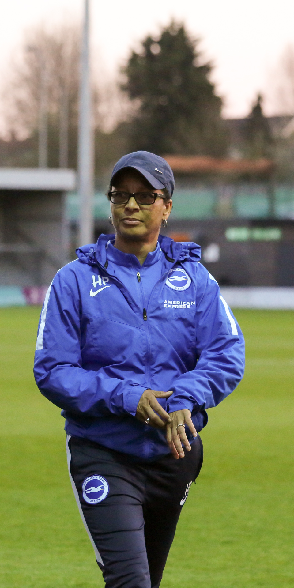 London Bees v Brighton & Hove Albion WFC, 18 April 2018 - Hope Powell